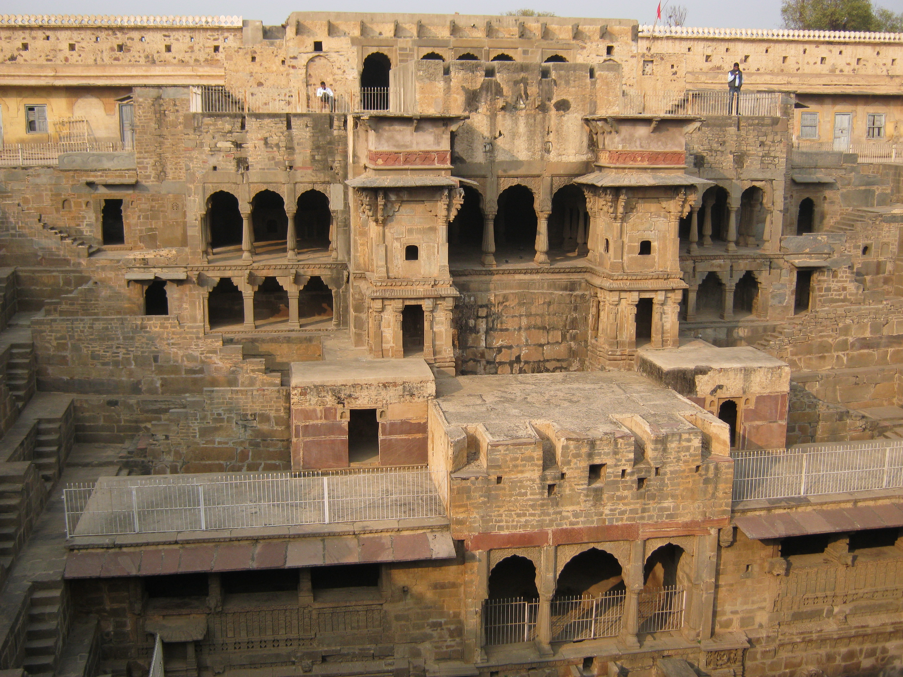 The Ancient Palace of Chand Baori